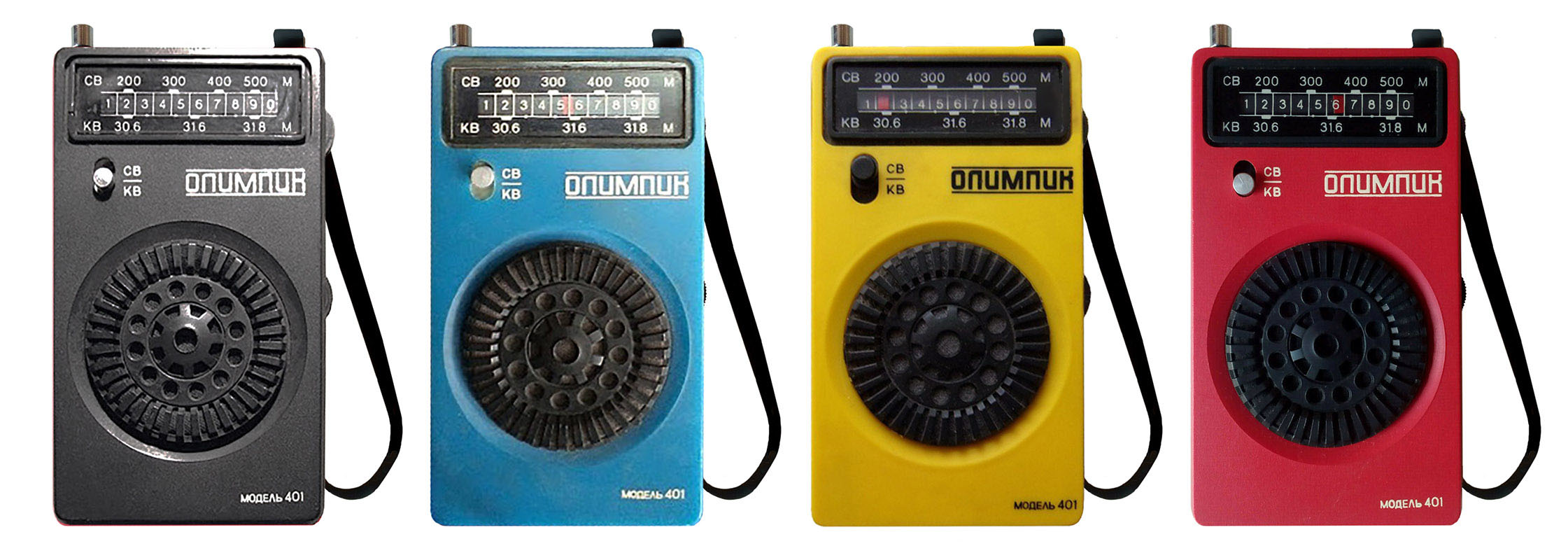 Portable radio Olimpik-401, by Mykola Lebid (1977)/ Colours